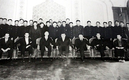 Meiji University Baseball Club met with Babe Ruth